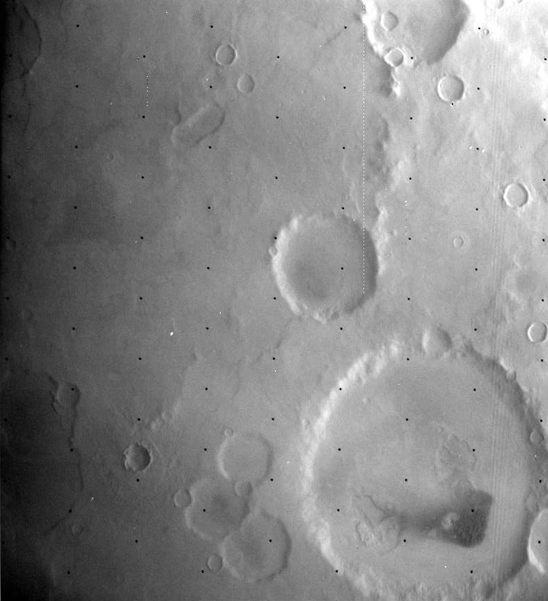 Neukum crater (lower right) on Mars. Viking Orbiter 1 image from camera A (547A41). Red filter was used for this image. Resolution is about 192 m/pixel. North is to upper right. Emission Angle: 19.3 Incidence Angle: 83.9 Latitude: -44.1 Longitude: 26.7 Phase Angle: 64.7